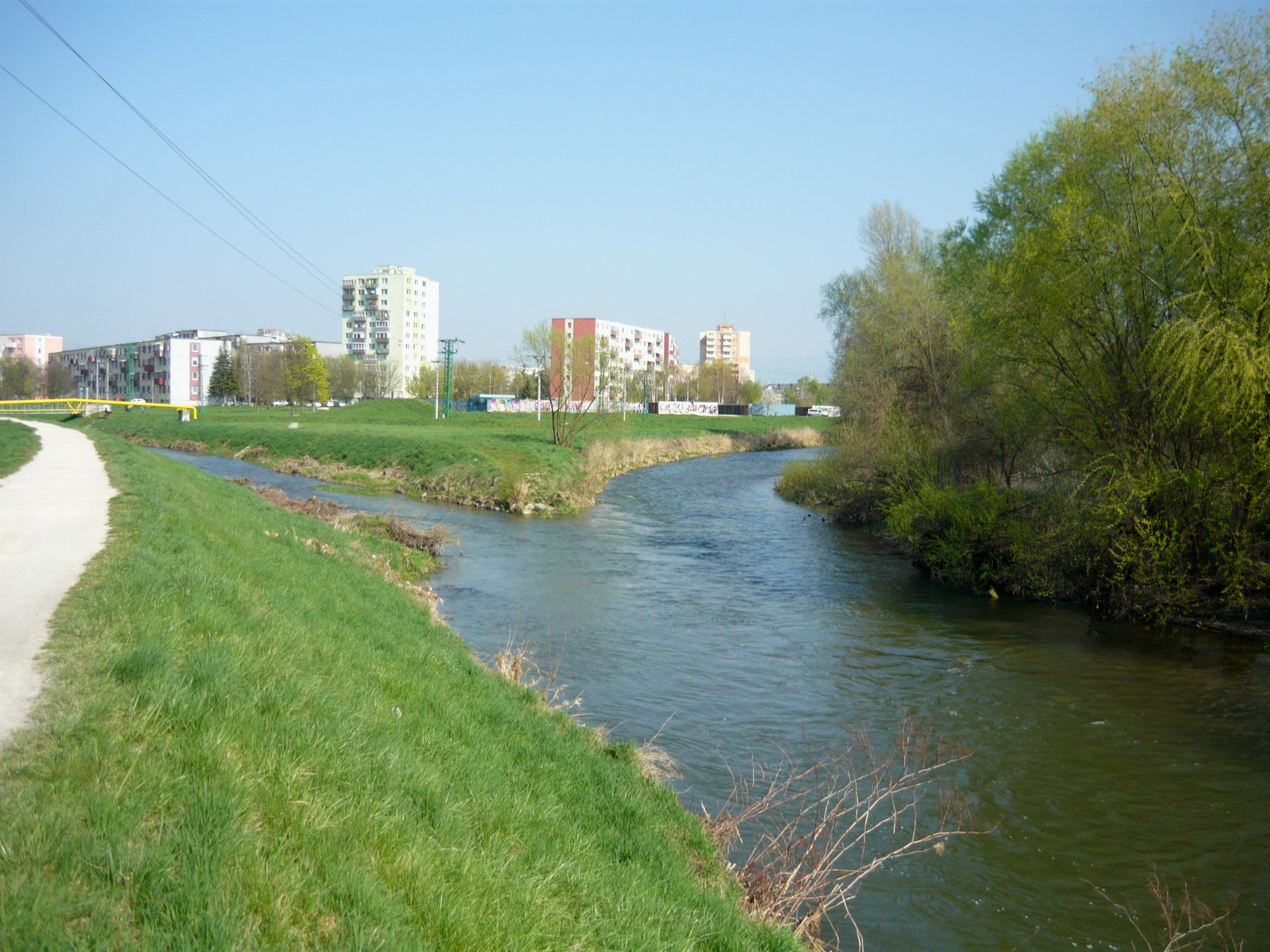 Confluence of the Nitra (right) and Nitrica (left) rivers in Partizánske, Slovakia.